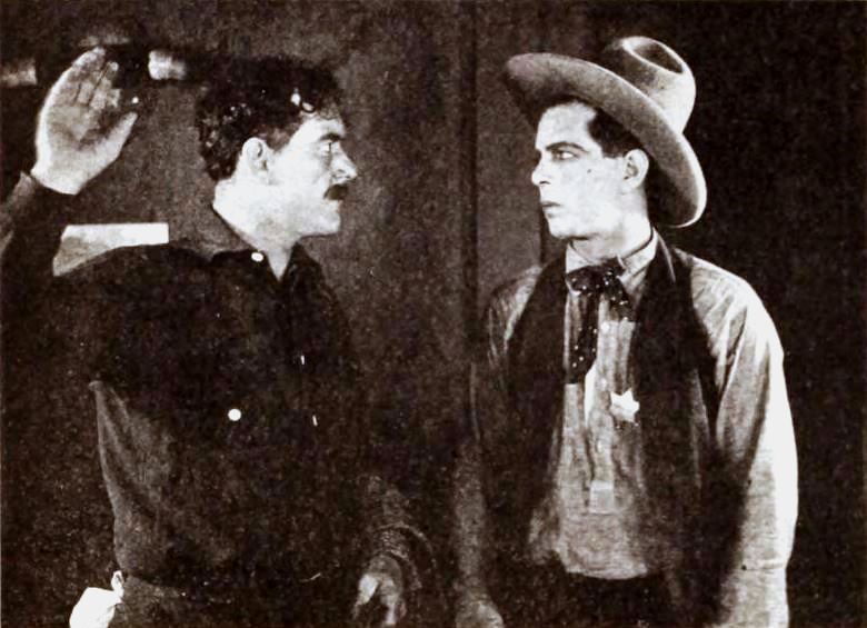 Still from the American western film One Law for All (1920) with Leo D. Maloney and Hoot Gibson, on page 64 of the October 23, 1920 Exhibitors Herald.